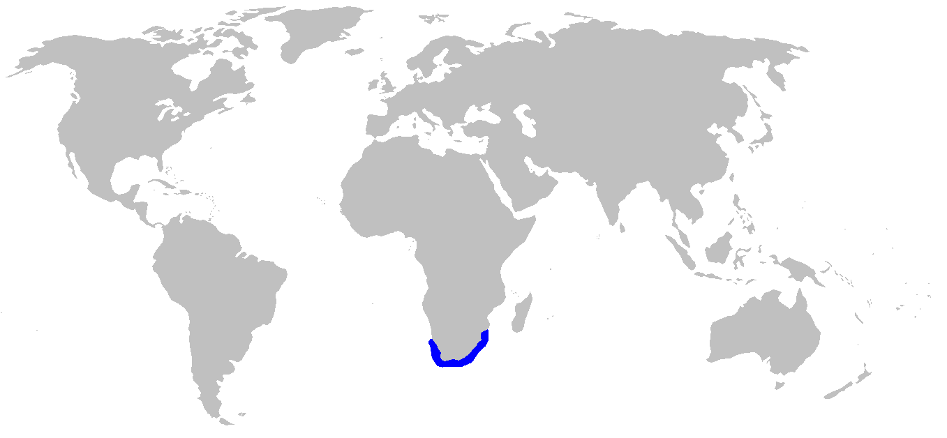 Distribution map for Poroderma pantherinum